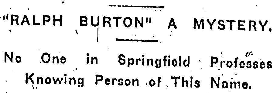 Illinois State Journal